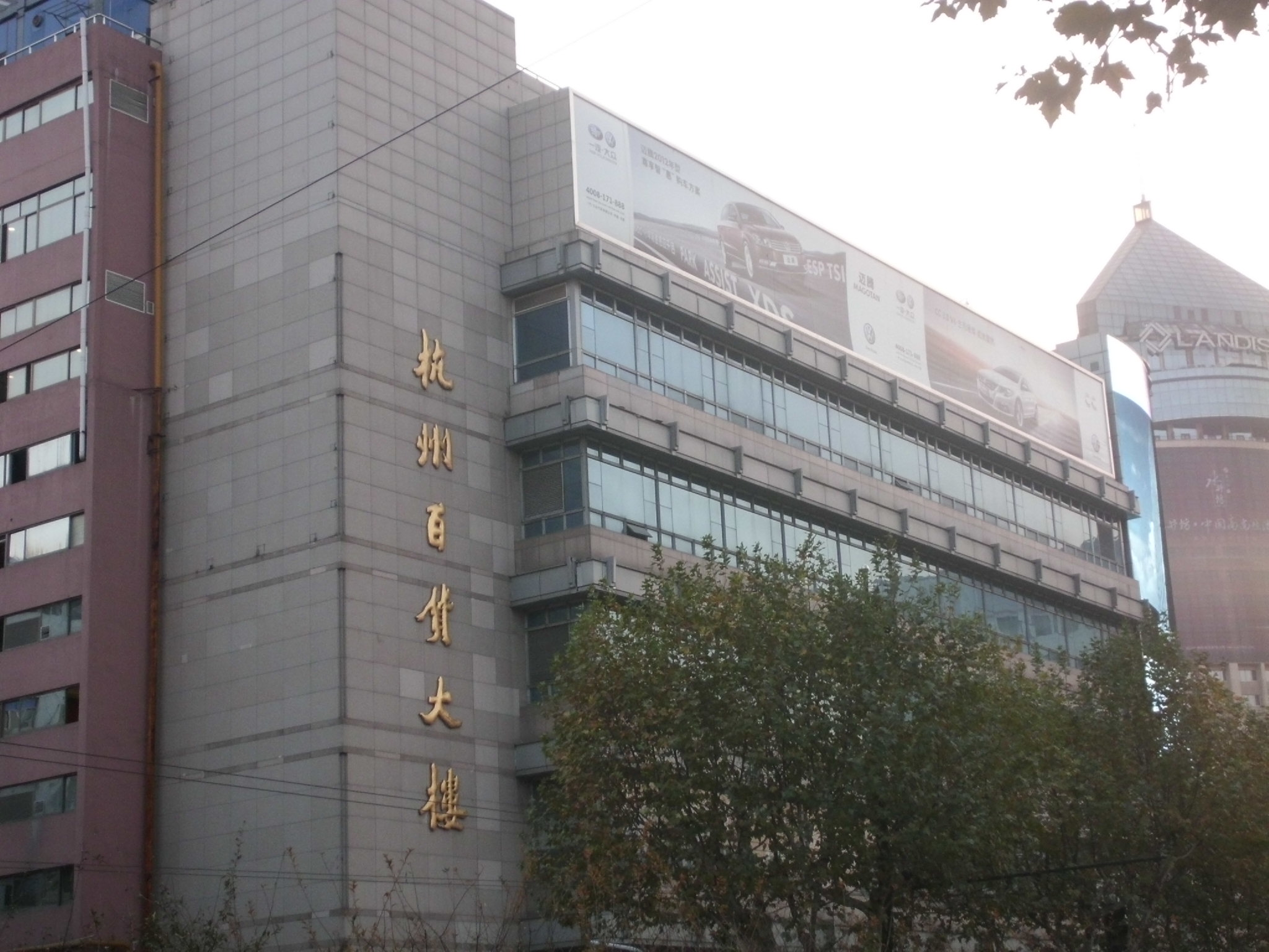 Hangzhou Baida building